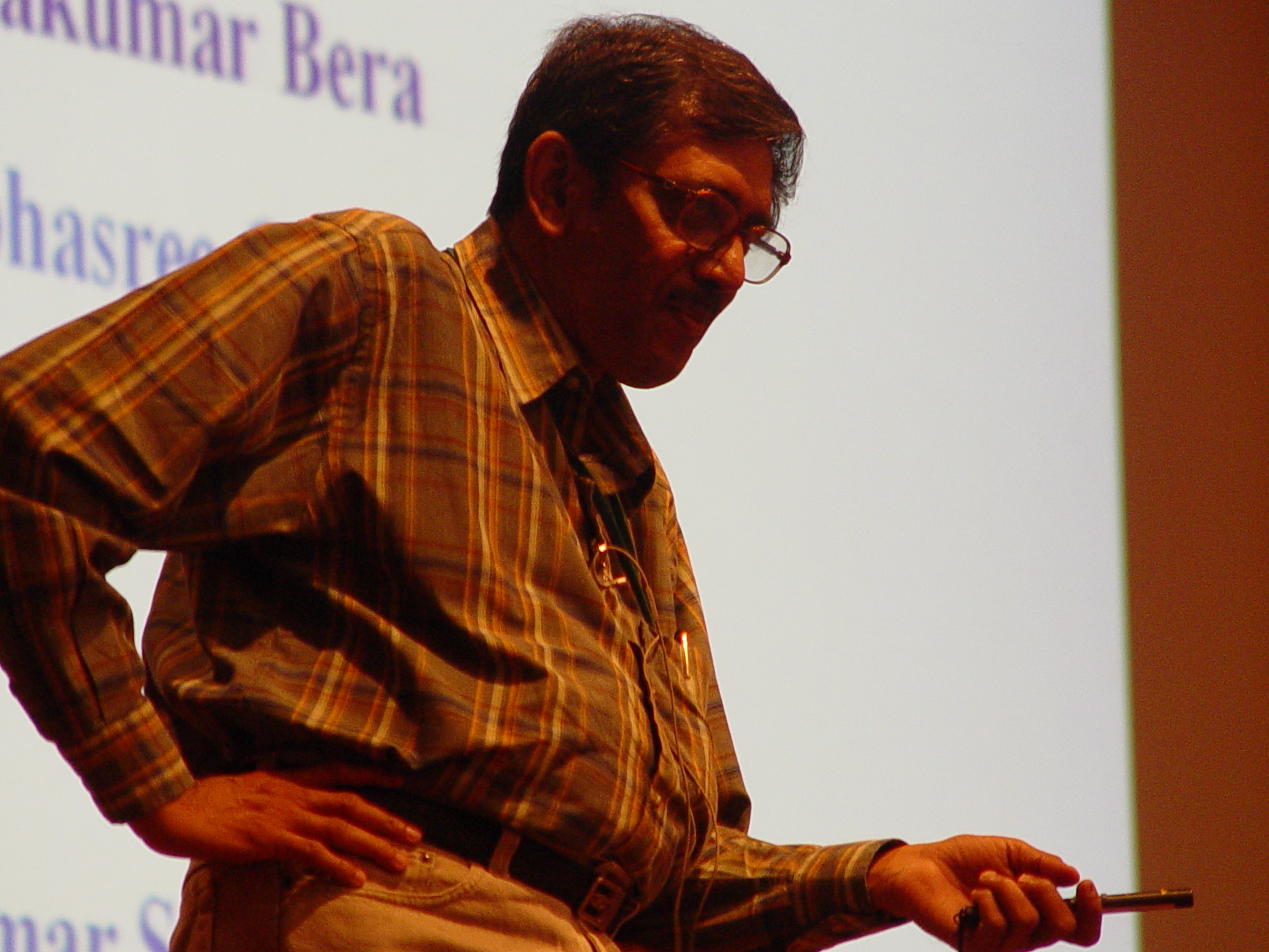 Prof. Debashis Muherjee giving talk on the Mapping of the SS-MRCC equations to an MRCI form at the International Congress of Quantum Chemistry at Kyoto, Japan